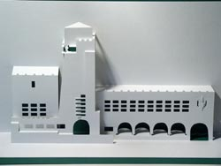 Self made picture of a self made object.